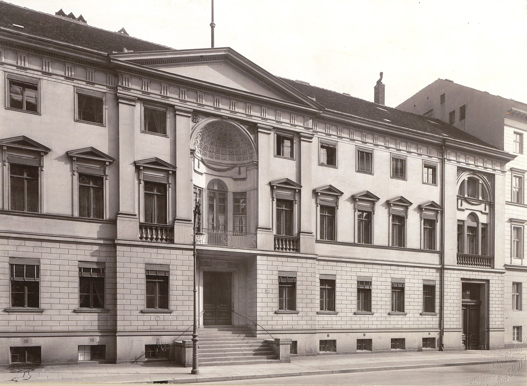 Ehemaliges Militärkabinett, Behrenstraße 66. Errichtet 1876 von Conrad Friedrich Wilhelm Titel als Palais Massow